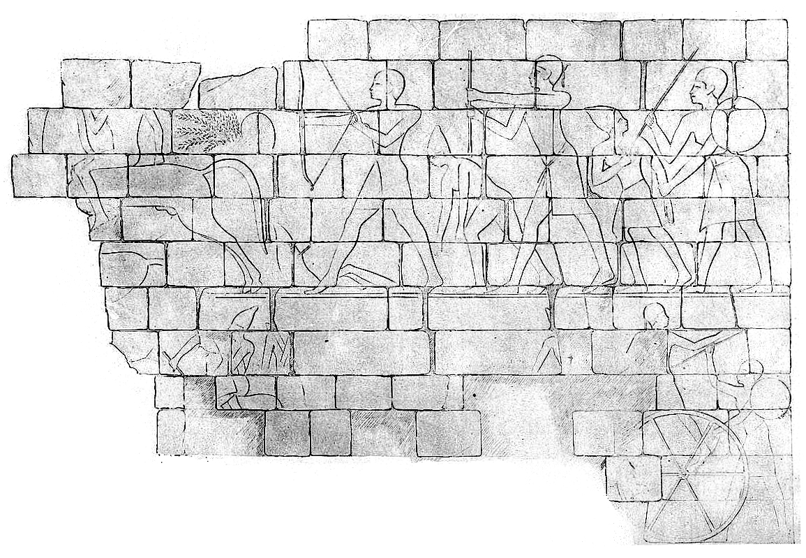 Battle scene between Kushites and Assyrians, Temple of Amon, Jebel Barkal